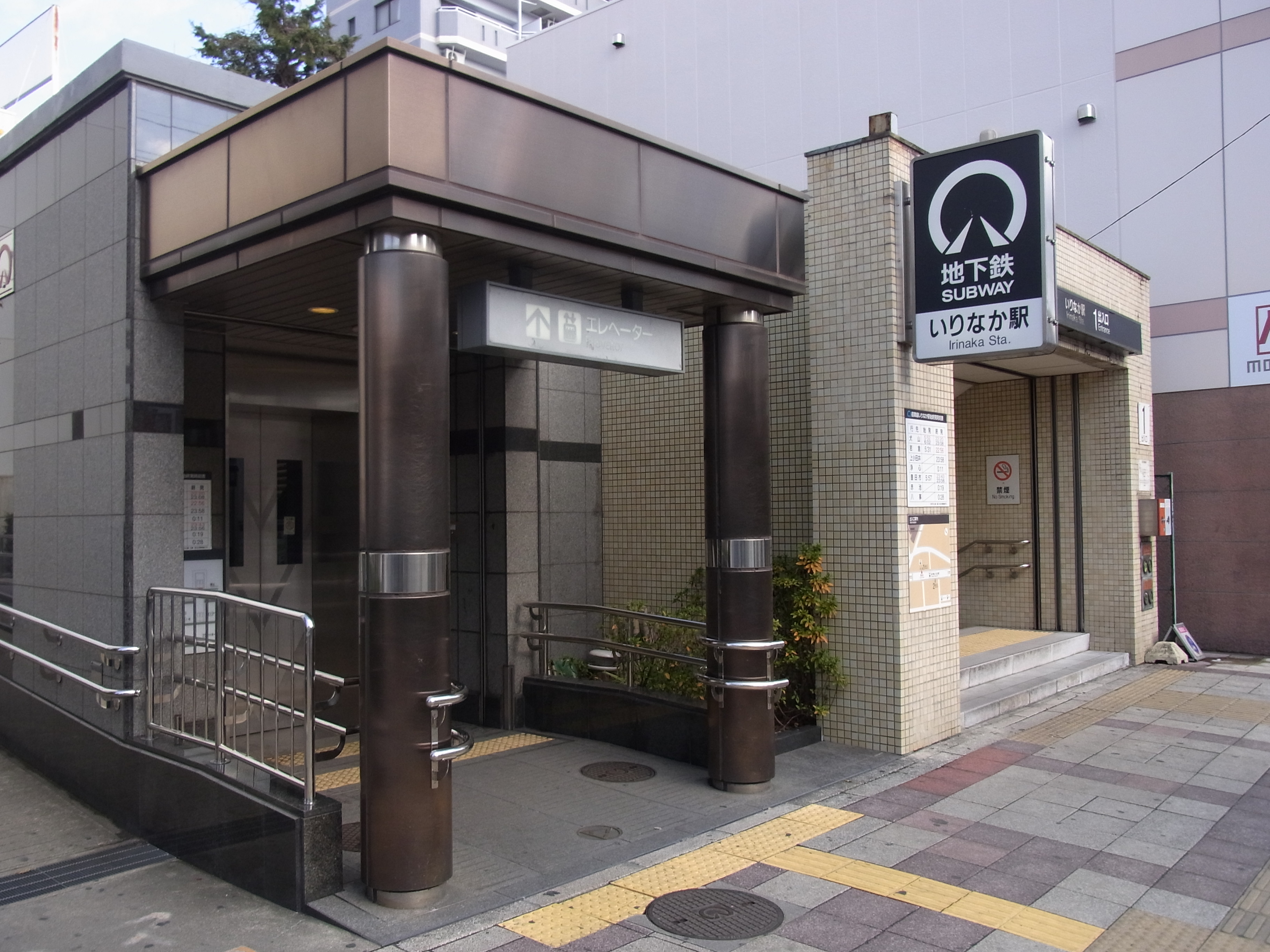 Nagoya Municipal Subway Irinaka Station in Showa-ku ward.